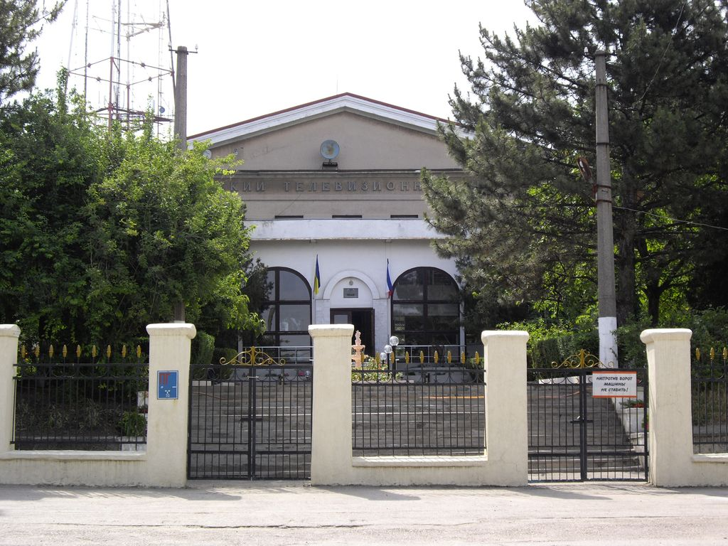 State TV channel Crimea building in Simferopol, Ukraine.